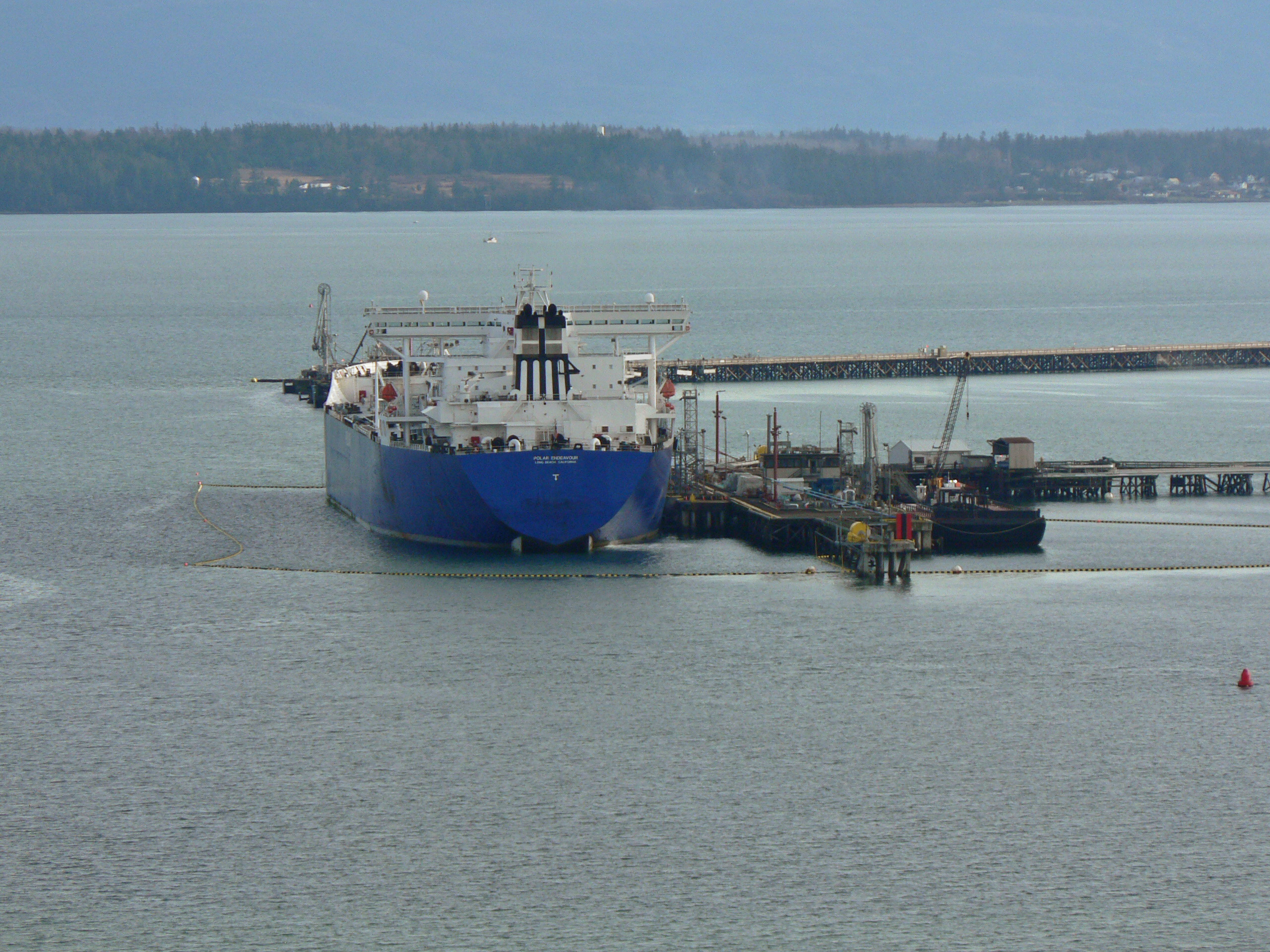 Polar Endeavour docked at Anacortes Refinery, a double-hulled oil tanker, 900 feet long.[1] IMO Number: 9193551 MMSI Number: 338371000 Callsign: WCAJ Length: 273 m Beam: 46 m